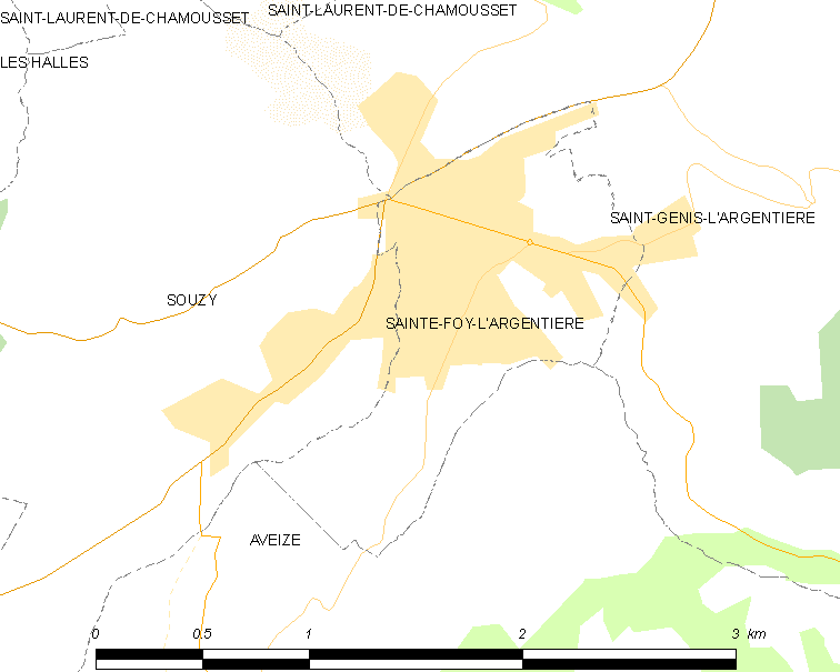 Map of French municipality